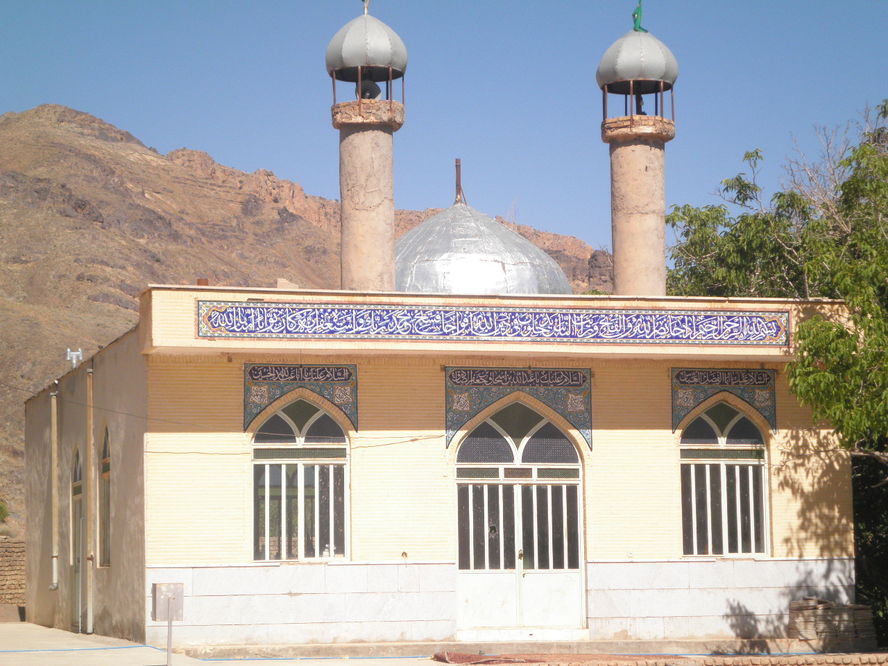 امام زاده عبداله